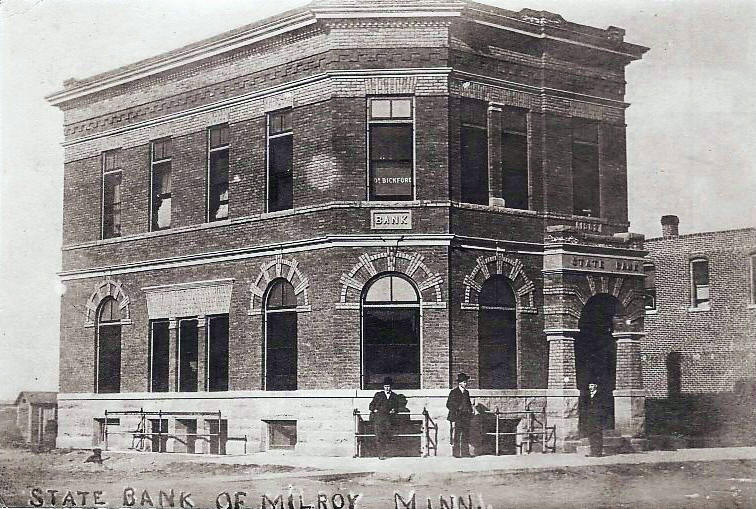 Milroy State Bank that is a has been placed under National Register of Historic Places. This photo is dated 1909 with author unknown.